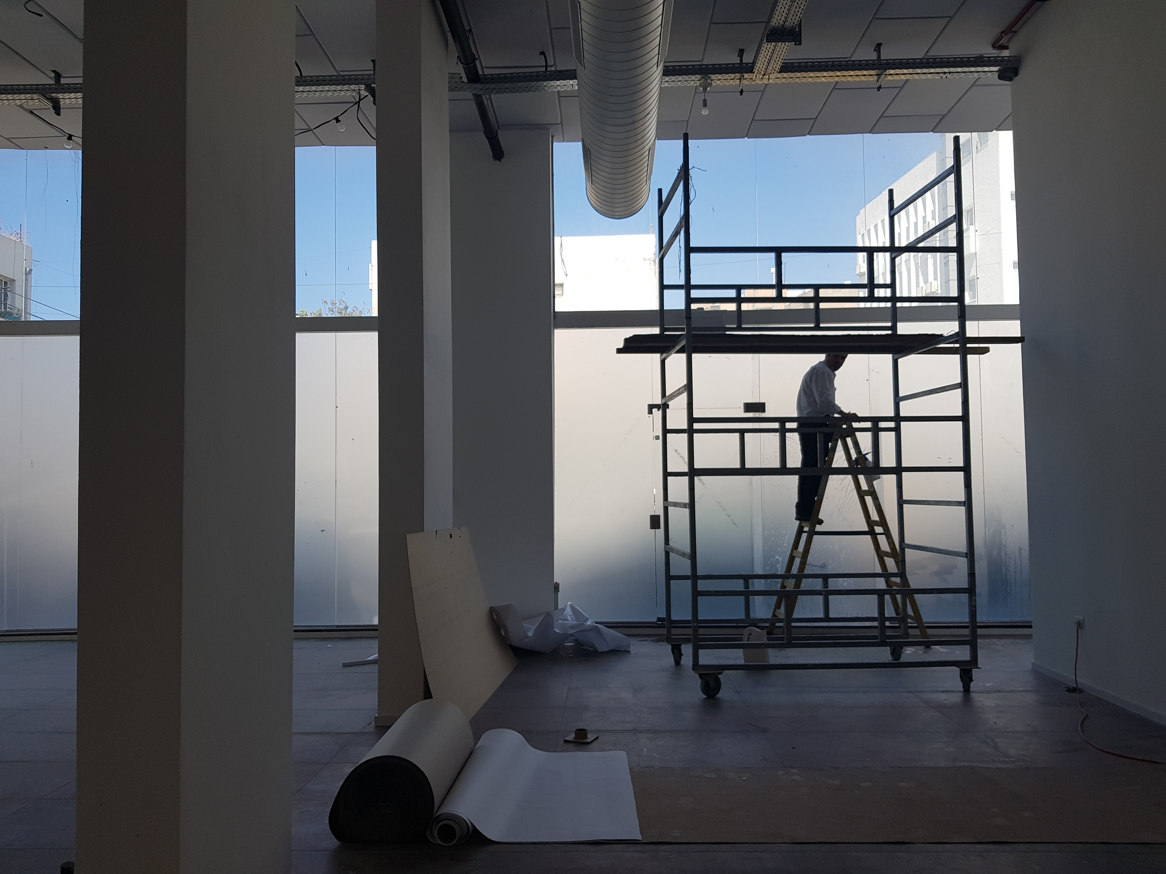 construction work in gallery tel aviv